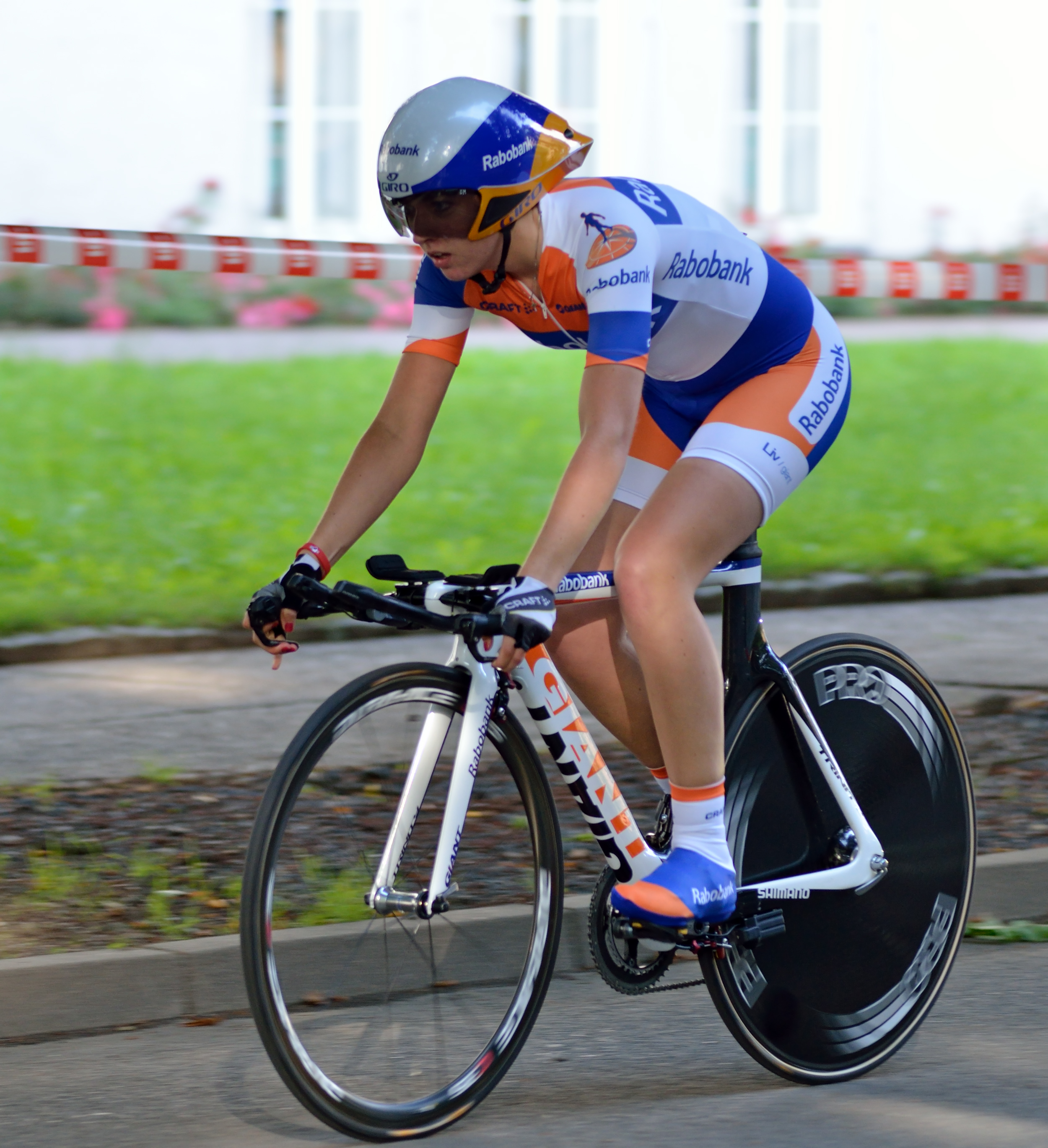 Sabrina Stultiens from the Rabobank Women Cycling Team during the Women's Tour of Thuringia 2012 in Zwickau, Germany.